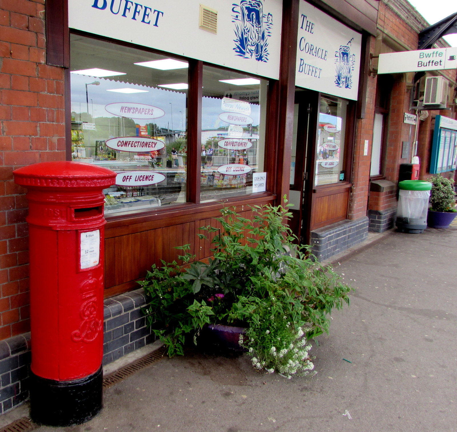 Edwardian pillarbox on platform 1, Carmarthen railway station